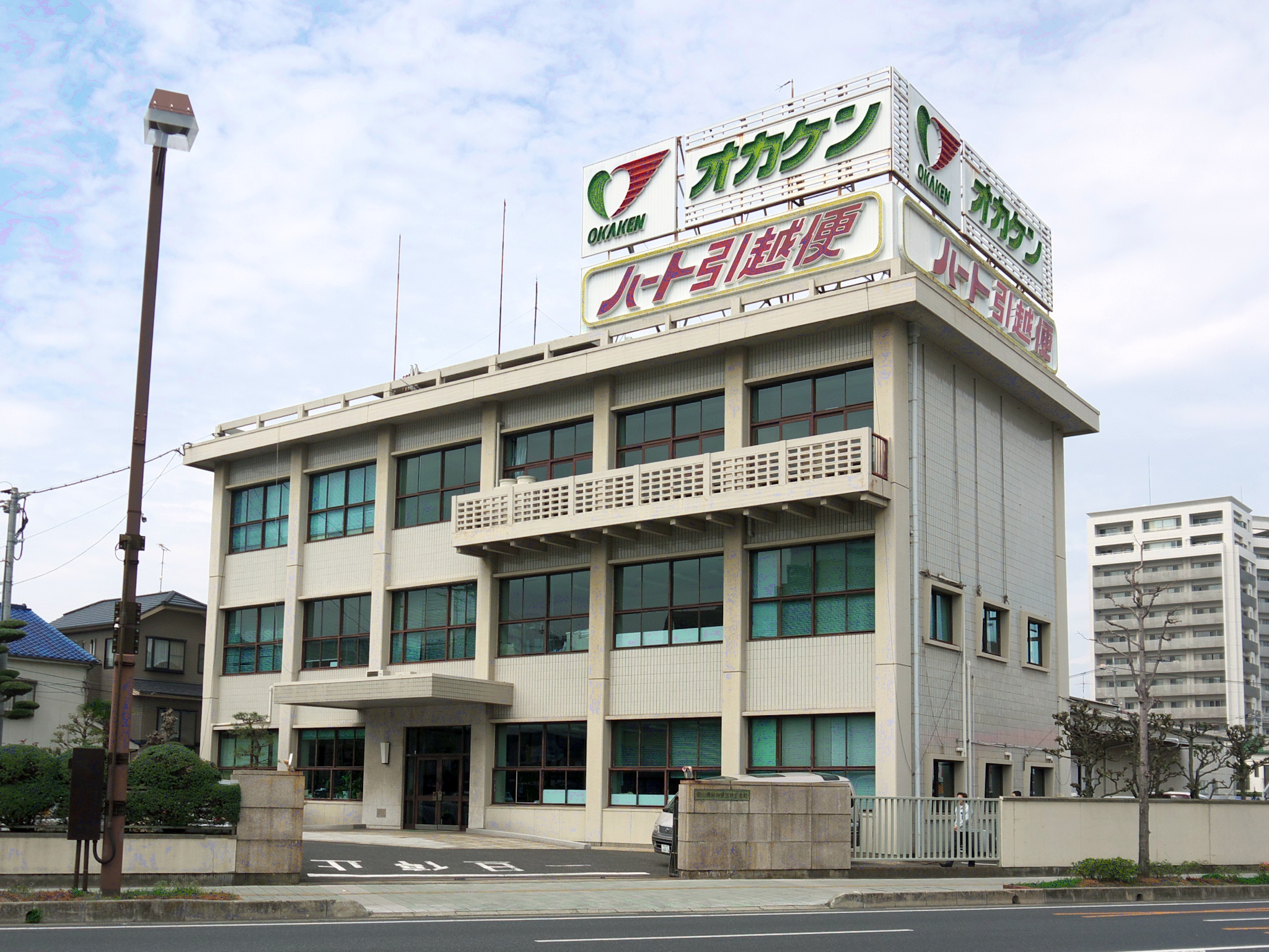 Headquarters of Okayamaken Freight Transportation Co.,Ltd. in Kita-ku, Okayama